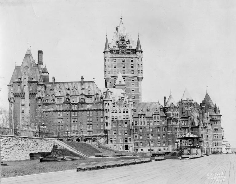 Photograph: Dufferin Terrace and the Chateau Frontenac, new tower under construction, Quebec City, QC, 1922-23, by Thaddée Lebel. Silver salts on paper (glossy finish) - Gelatin dry plate process - 18.9 x 24.6 cm